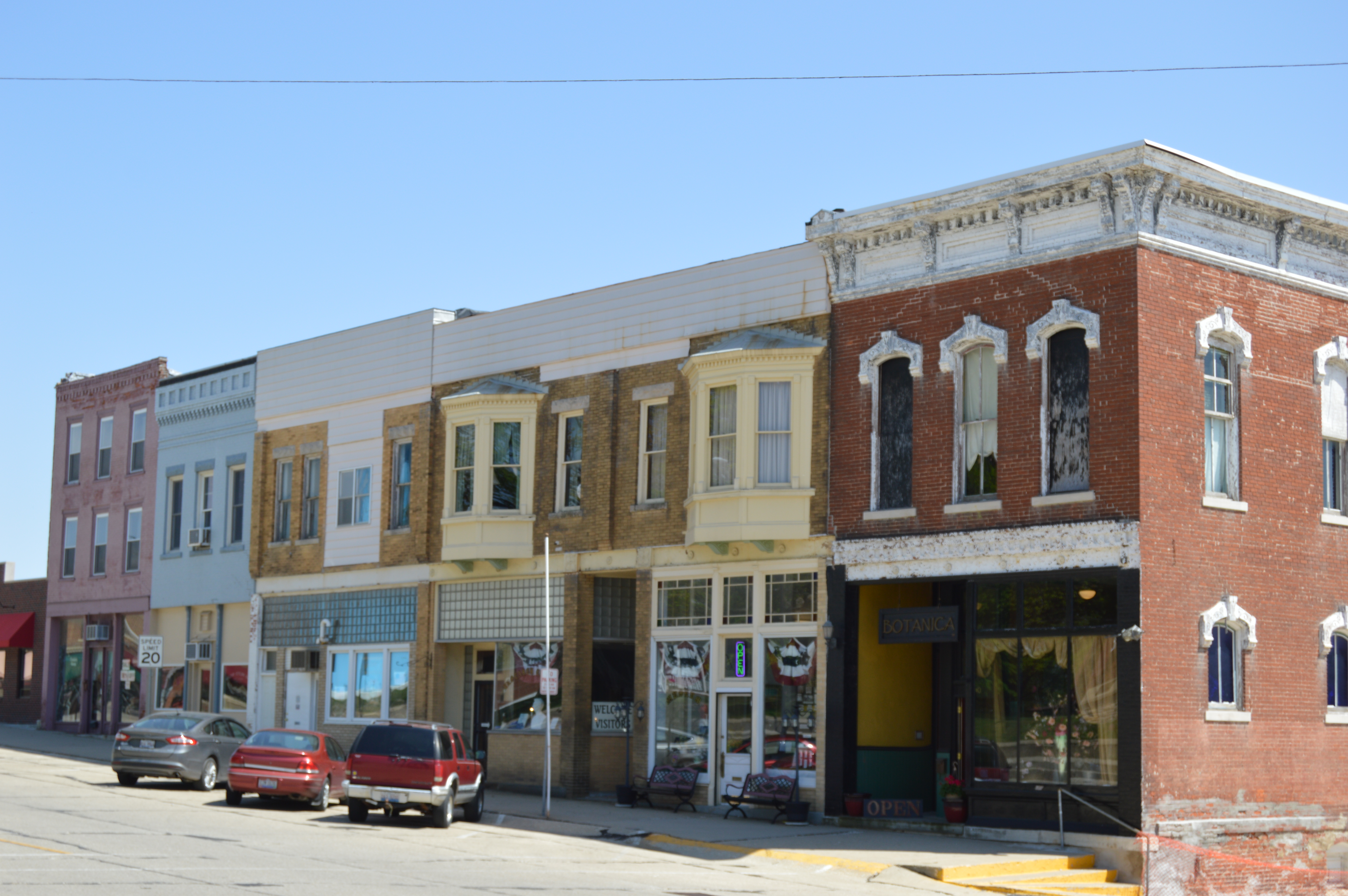 Buildings on the southern side of Cooke Street on the courthouse square in Mount Pulaski, Illinois, United States.